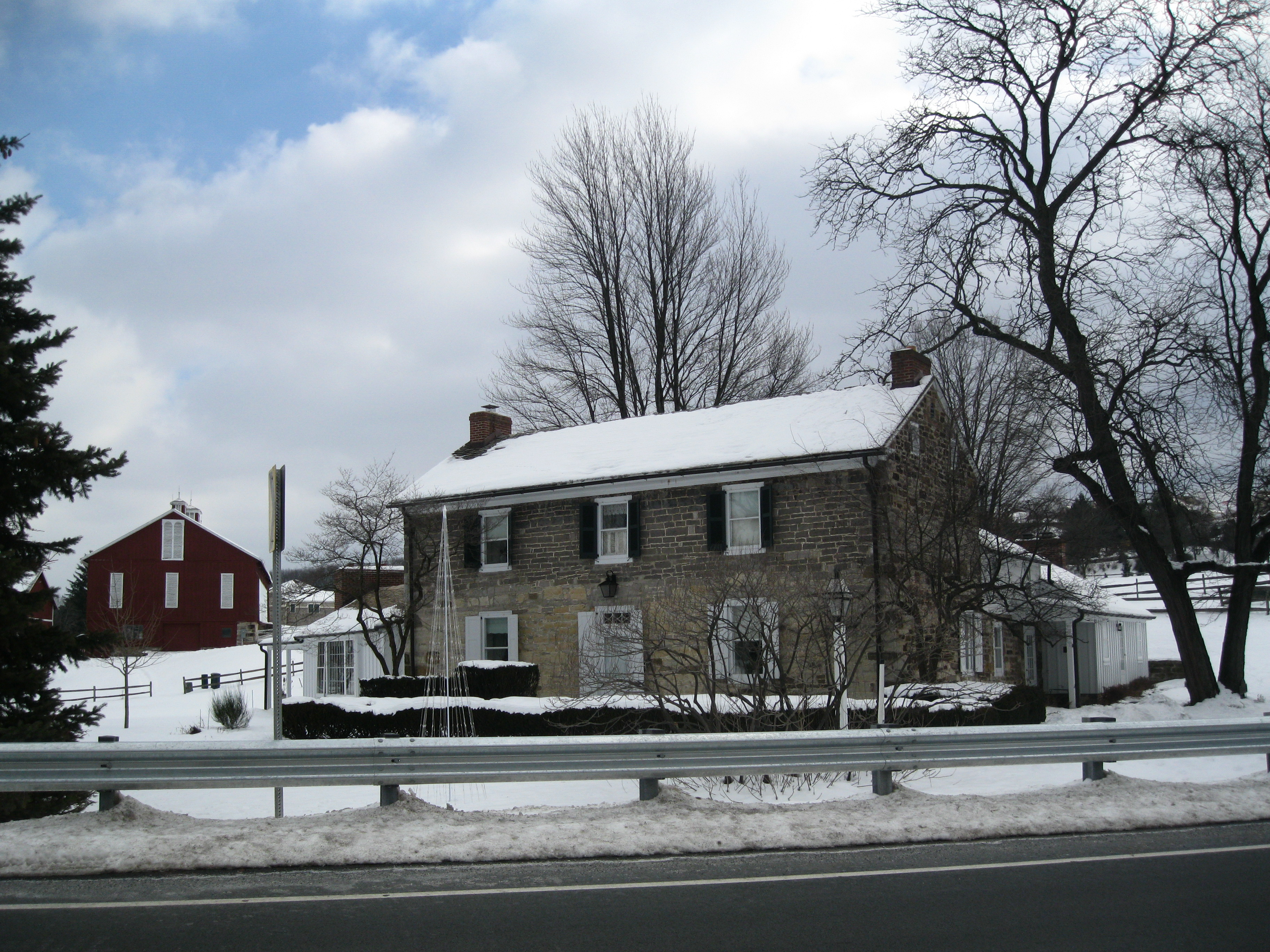 General John Thompson House in College Township, Centre County, Pennsylvania, USA, was built in 1813 and listed on the National Register of Historic Places in 1978. The barn dates to the American Civil war era.